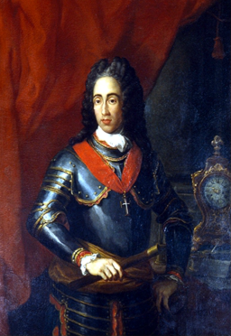 Portrait of D. Luís Carlos Inácio Xavier de Menezes (1689-1742), 5th Count of Ericeira and 1st Marquis of Louriçal.